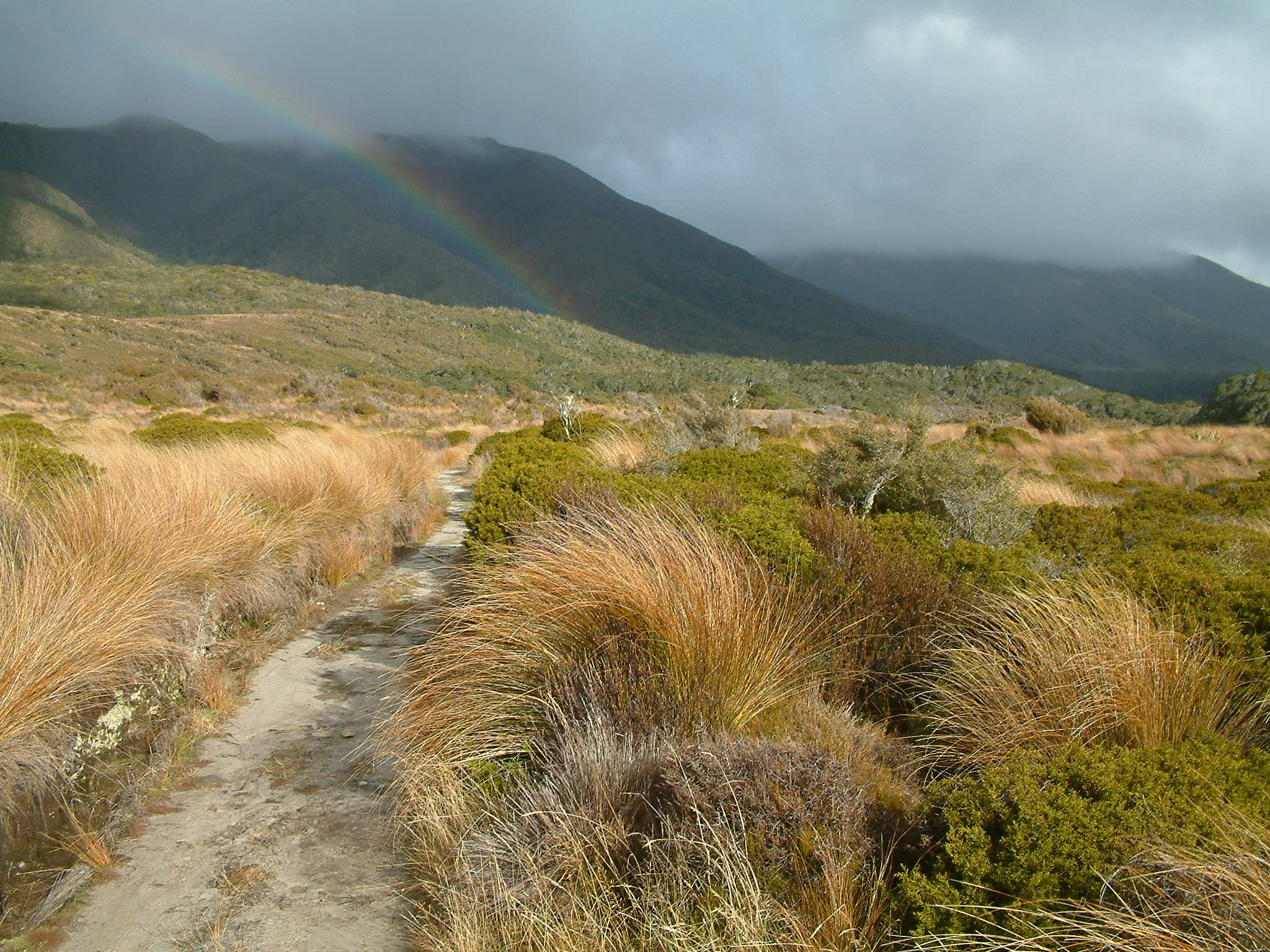 A view of the Gouland Downs, on the Heaphy Track, South Island, New Zealand